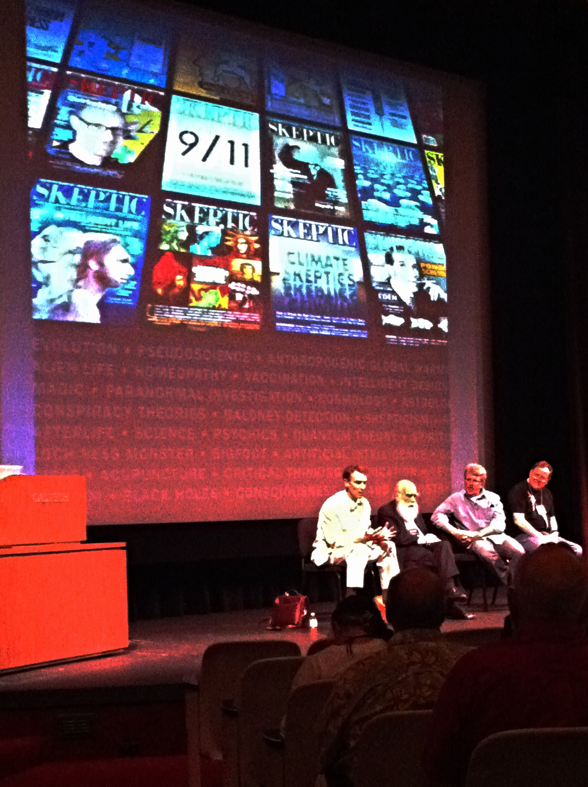 A photograph of several speakers appearing at the Skeptics Conference in 2011, at CalTech, in Pasadena, California.